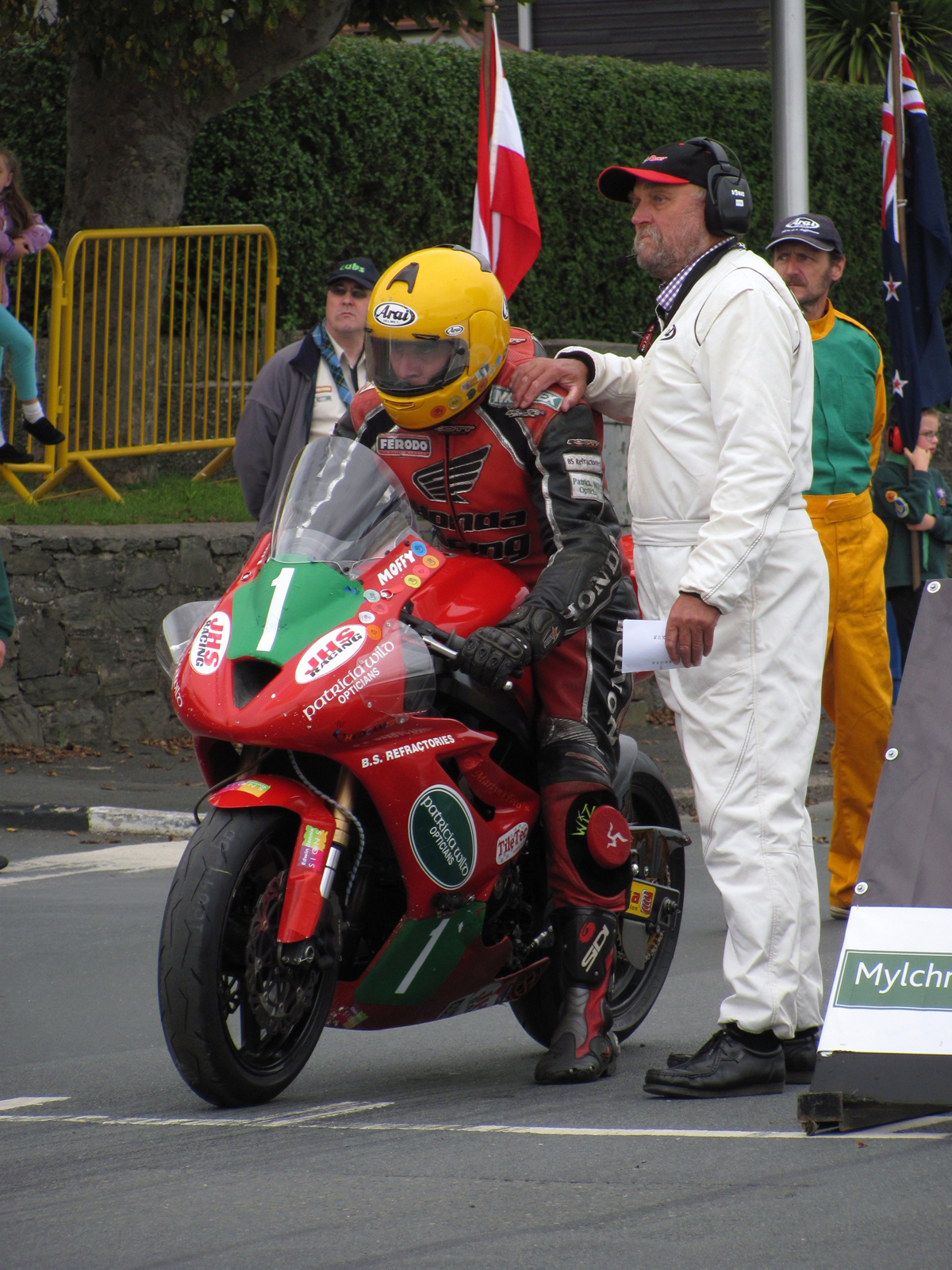 (Description : Dave Moffitt 650cc Supertwin Race 2011 Manx Grand Prix Date : 31st August 2011 Source : Agljones at en.wikipedia Permission See below.)